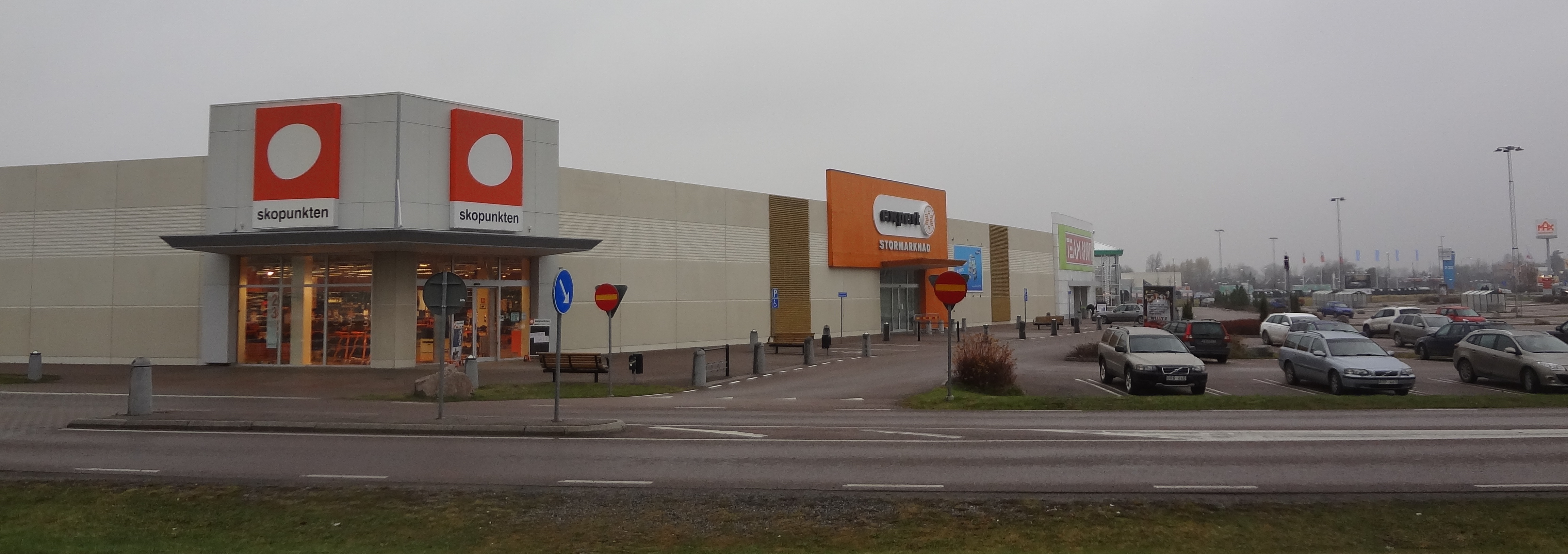 Shopping mall Tuna Park in Eskilstuna, Sweden. Photo november 2012.